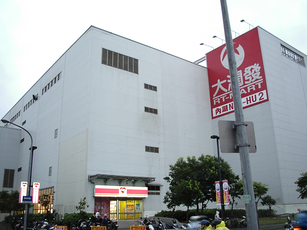 RT-Mart Neihu No. 2 Store, Neihu District, Taipei City. 中文（台灣）: 大潤發內湖二店，位於臺北市內湖區舊宗路一段188號。 中文（中国大陆）: 大润发内湖二店。